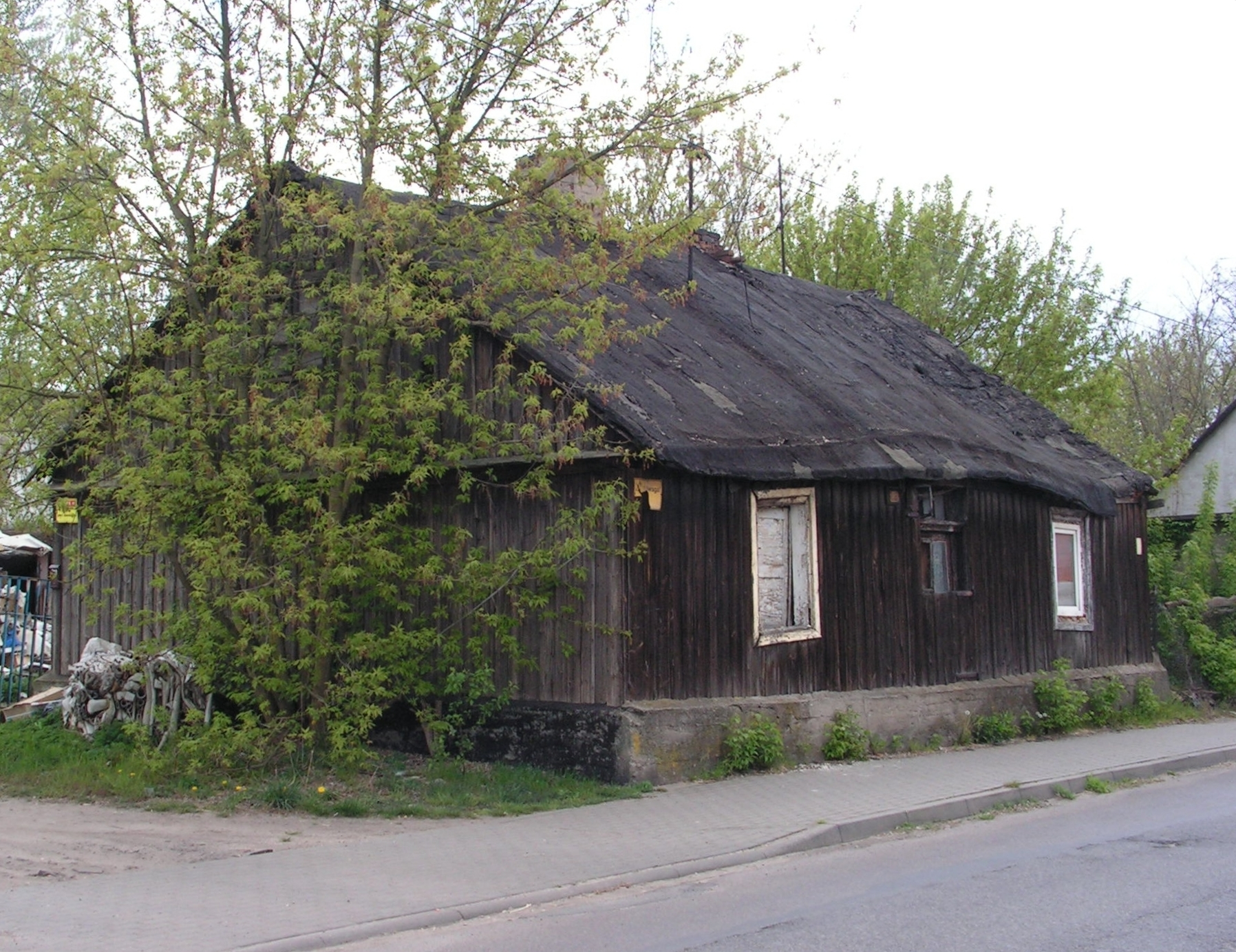 Wooden house at 48 Chłodna Street in Włocławek, built at the end of 19th-century.